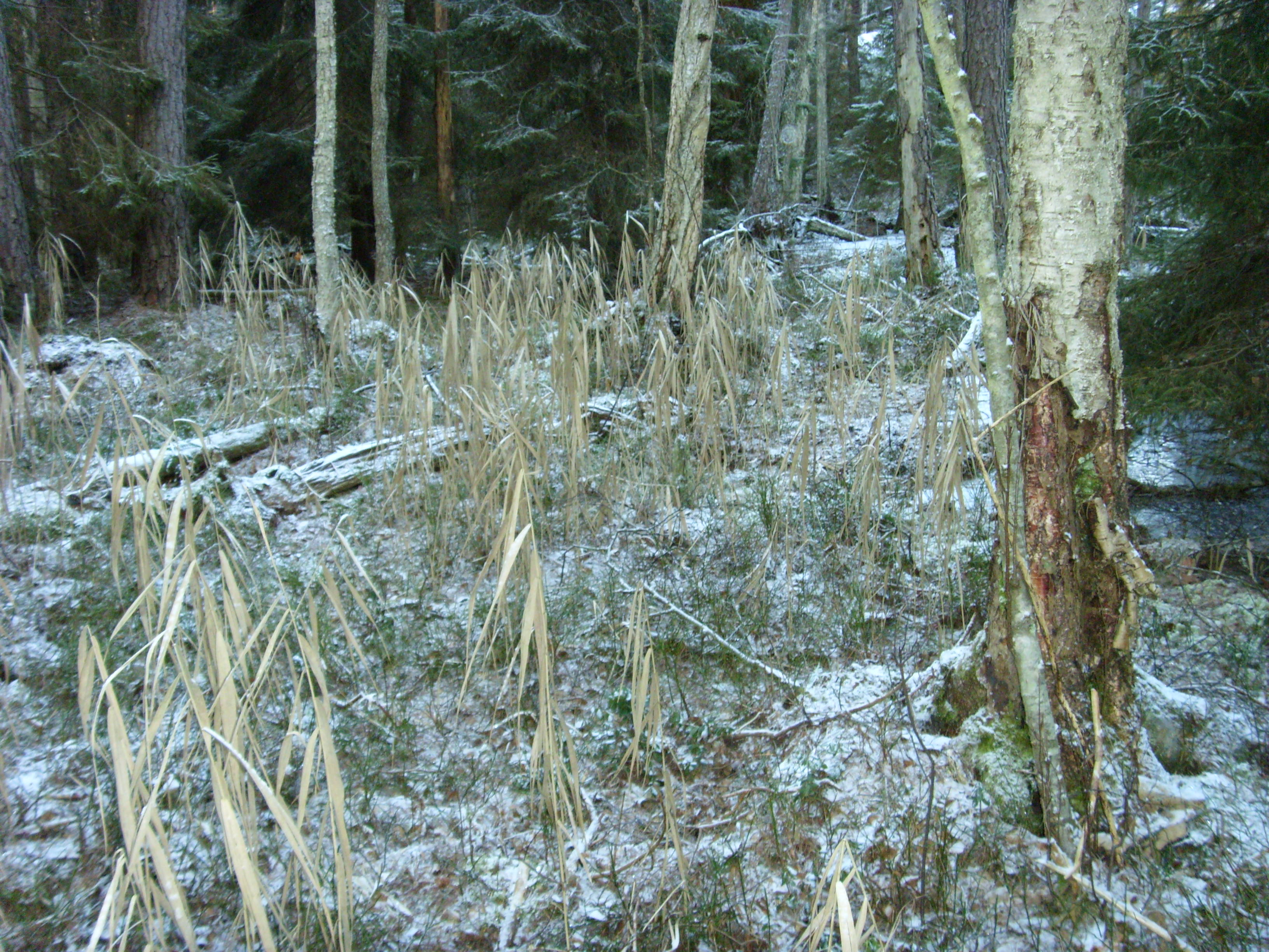 This is a photograph of a frozen wetland in the nature reserve called Talbyskogen, in Södertälje, Sweden